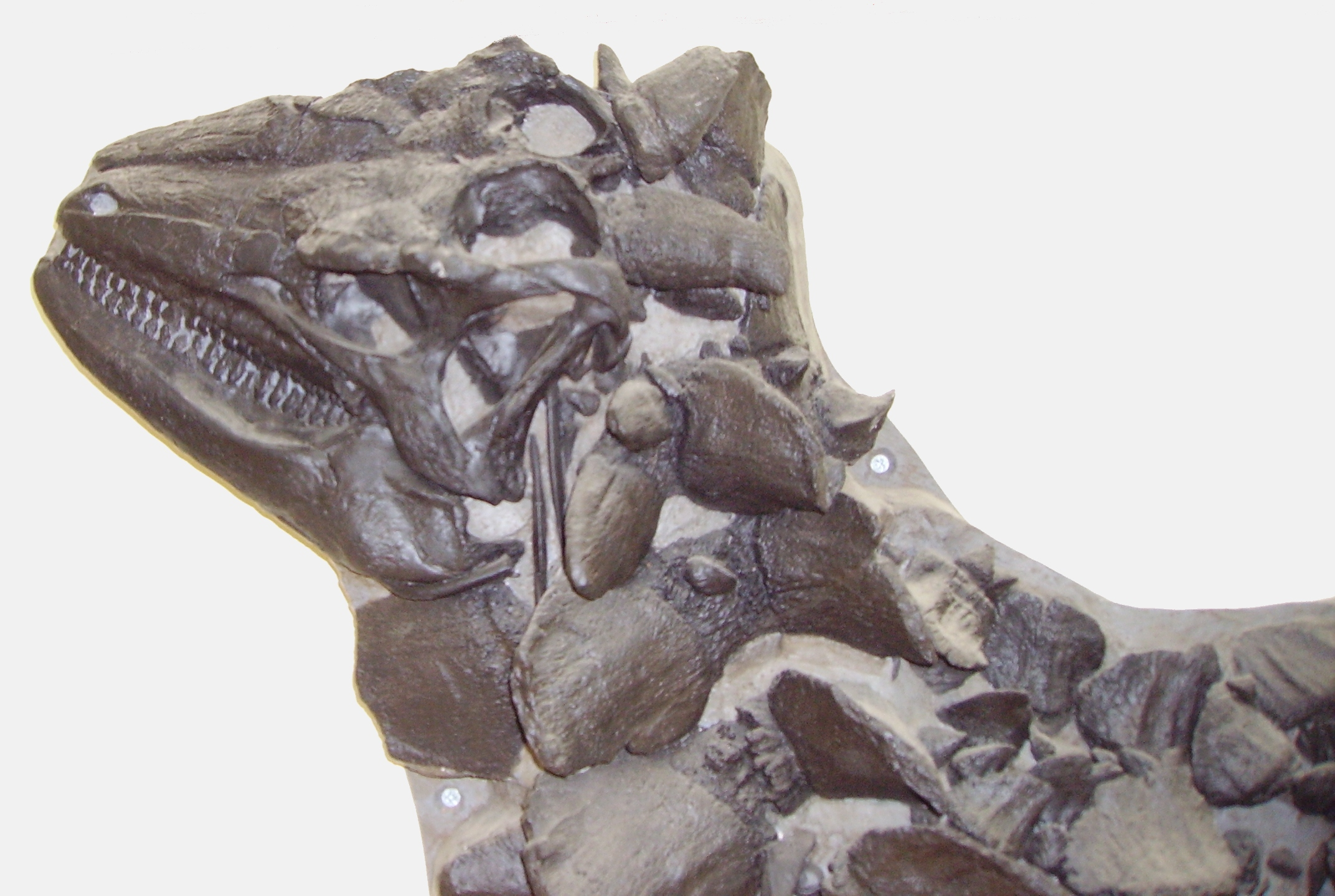 Photographer: User:Ballista from Charmouth Heritage Coast Centre, Charmouth, England